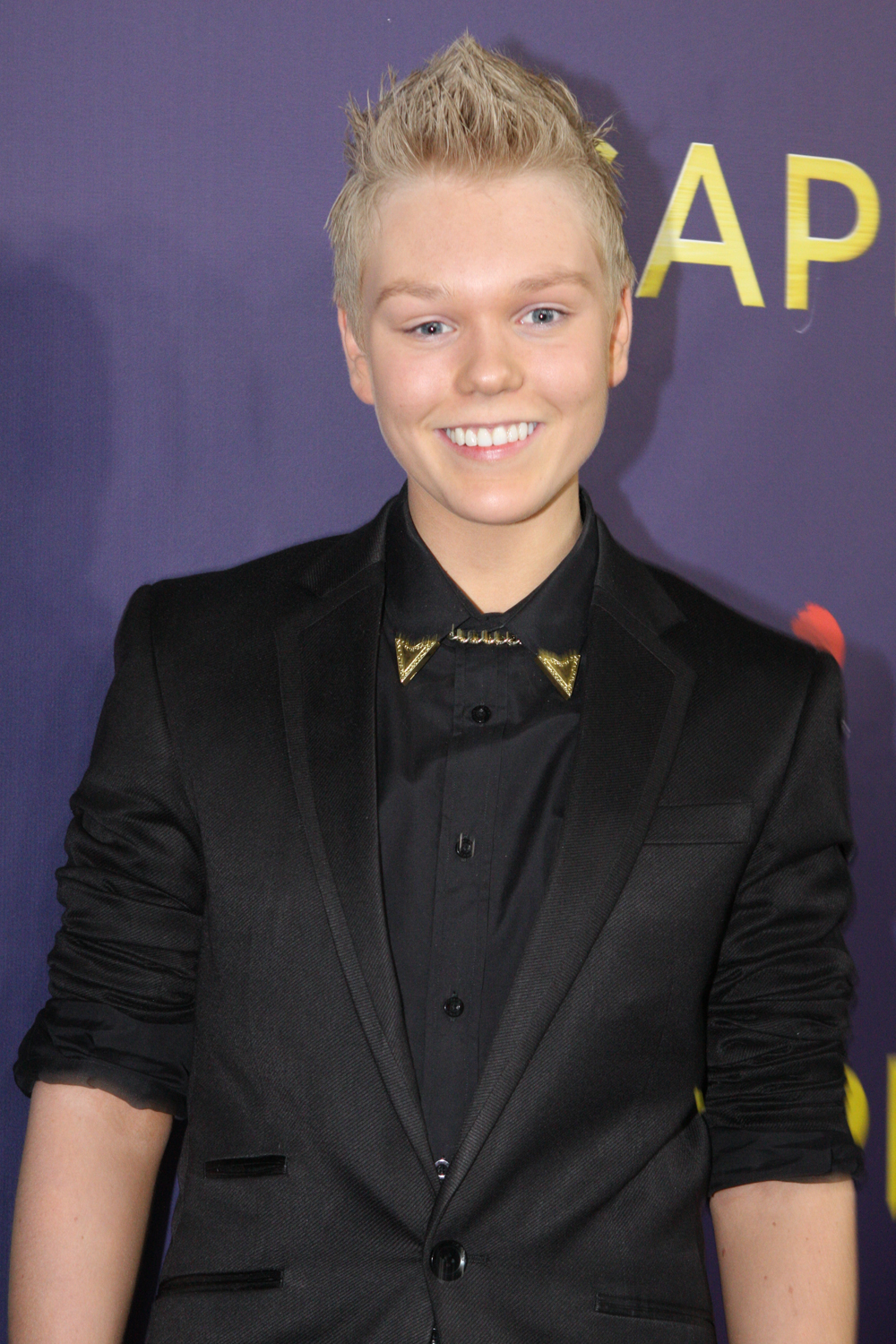 Jack Vidgen at the Australian premiere of The Sapphires at State Theatre in Sydney, Australia.